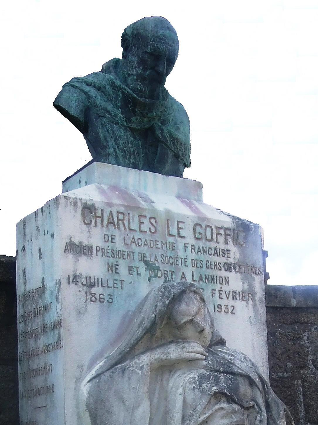 photograph of monumrnt to Charles Le Goffic, Lannion